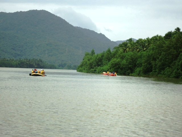 Beauty of river Kali